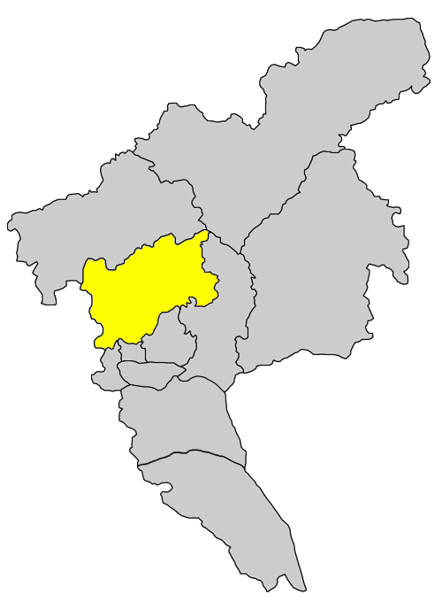 Location of Baiyun District, Guangzhou